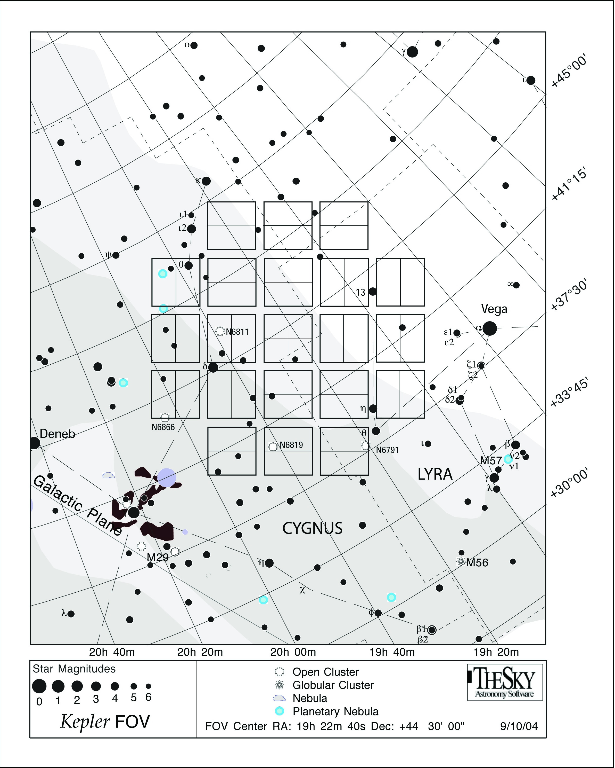 This star chart illustrates the large patch of sky that Kepler will stare at for the duration of its planned three-and-a-half-year lifetime. The full field of view occupies 100 square degrees of our Milky Way galaxy, in the constellations Cygnus, Lyra and Draco.